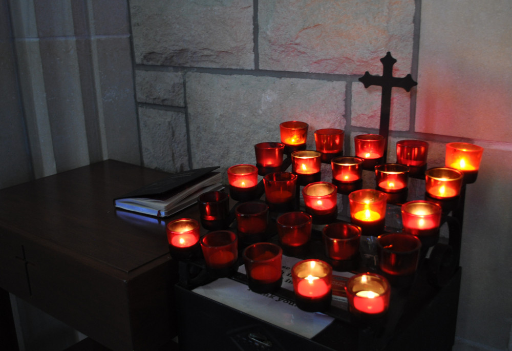 Small votive candle rack inside Grace Cathedral, Topeka.